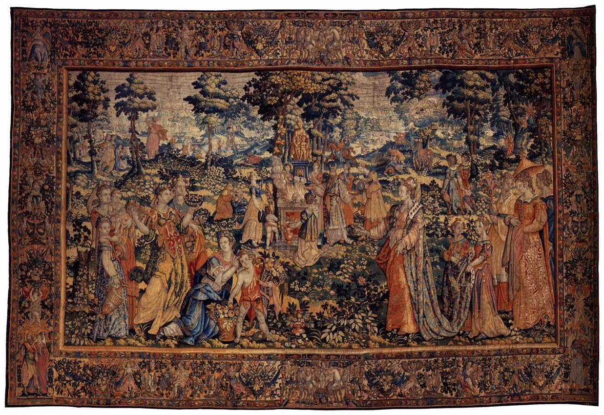 Niobe’s Pride [from the Diana series].